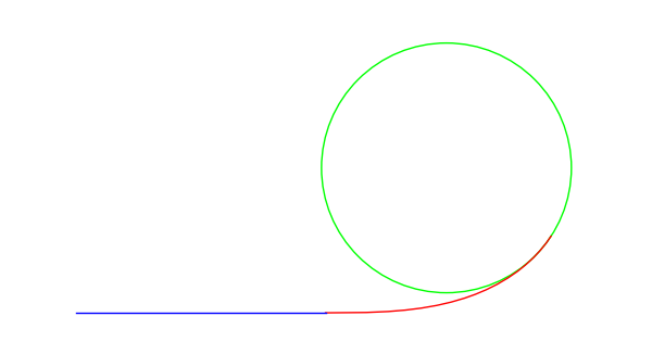 This is an example of a red easement (transition) curve between a blue straight line and a green circular arc. The circular arc is supposed to start at the end of the red easement curve. However, it is drawn as a full circle here.